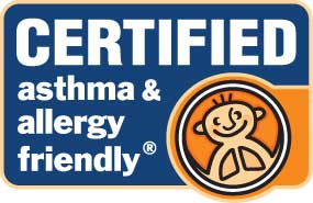 asthma & allergy friendly® International logo